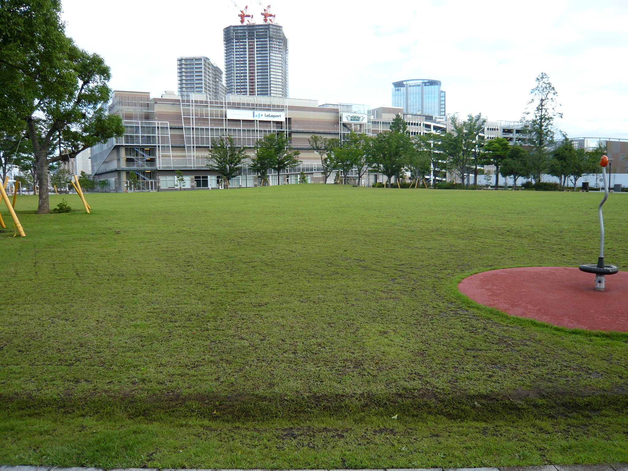 Toyosu Park in Koto-ku, Tokyo, Japan.